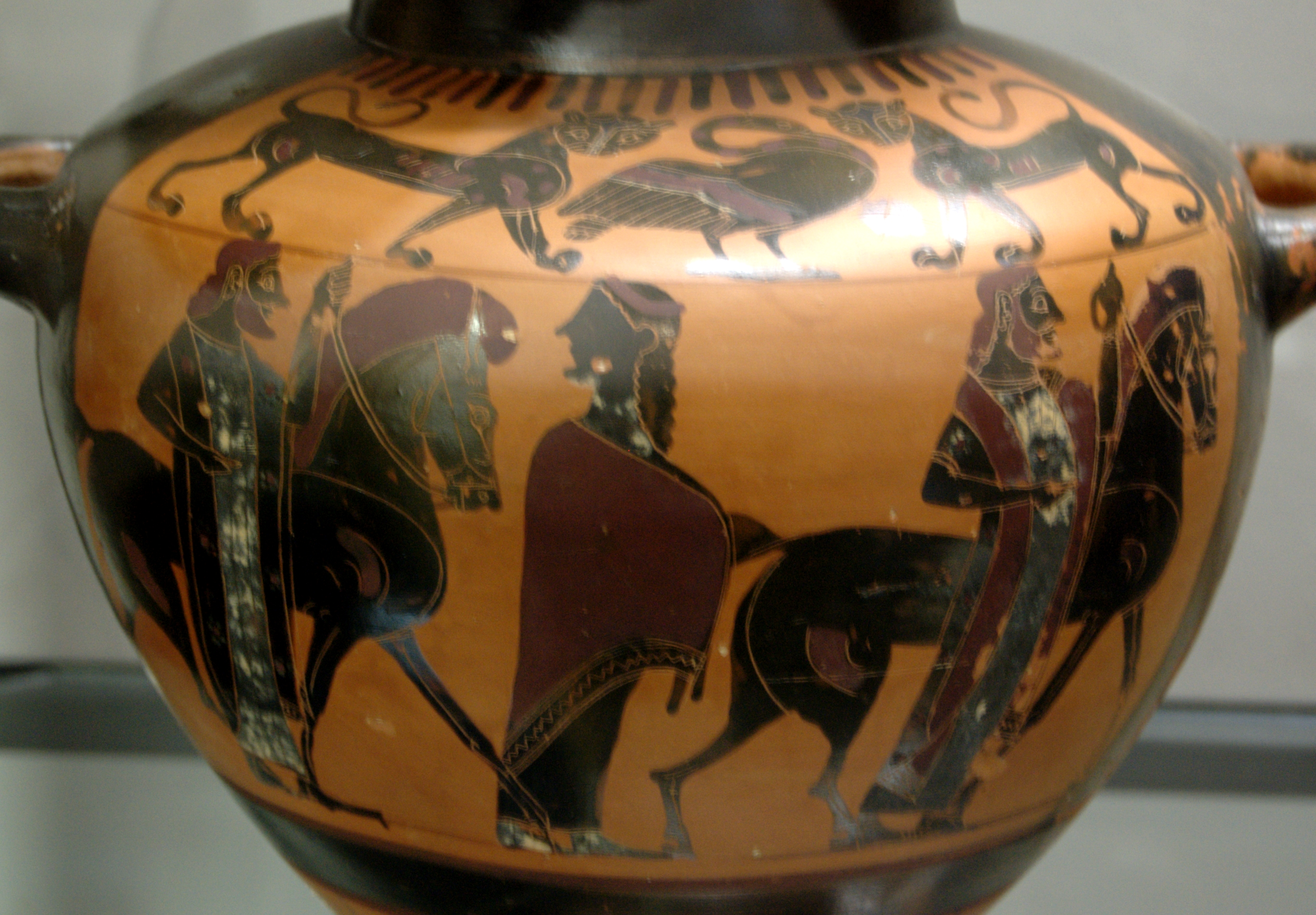 Equestrian rocession: maybe Castor and Pollux, with their sister Helen. Attic black-figure hydria, ca. 560 BC. From Vulci.